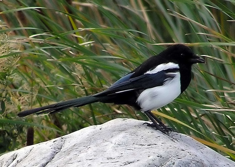 Magpie. Taken by Adrian Pingstone in Gloucestershire, England in September 2004 and released to the public domain.